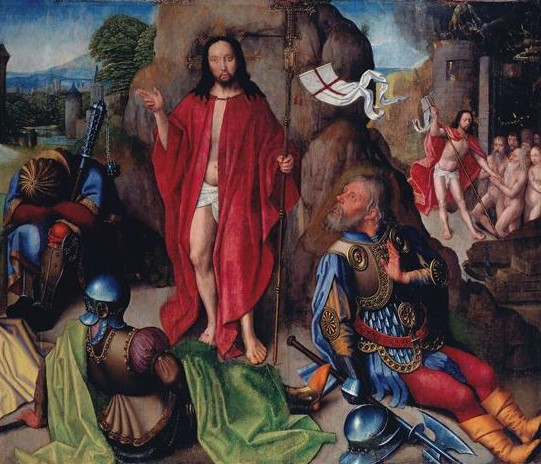 Resurrection of Jesus (1530-1537) by an anonymous disciple of Gerard David; It is part of the Polyptych of Esporão Chapel (Cathedral of Évora) and now is on display at Museu de Évora, Portugal.